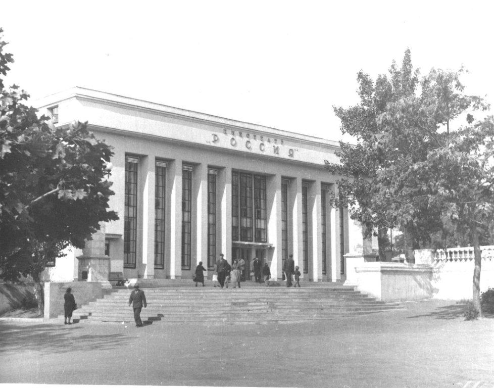 Cinema house "Russia"